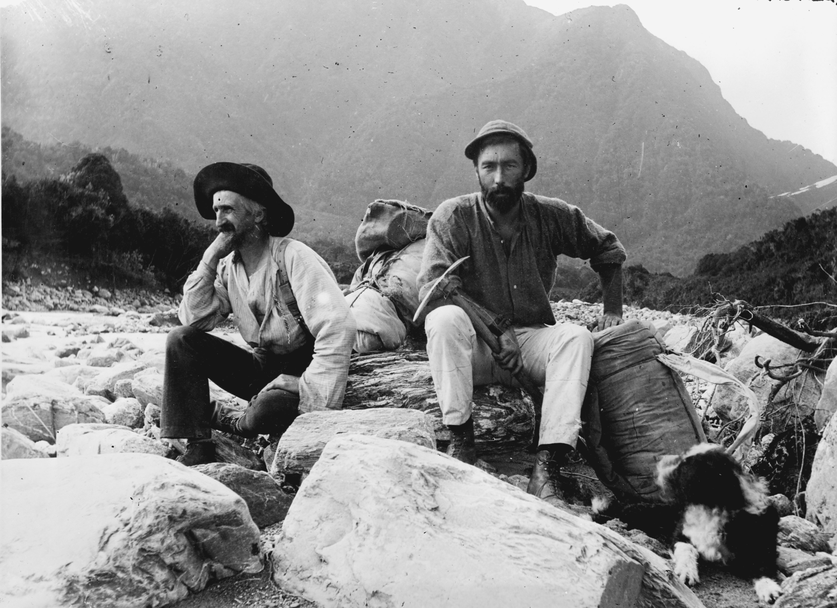 Charles Edward Douglas (left), Arthur Paul Harper, and Douglas's dog Betsey Jane in the valley of the Cook River in 1894. Taken by an unidentified photographer.